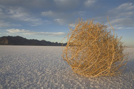 Nicelyous